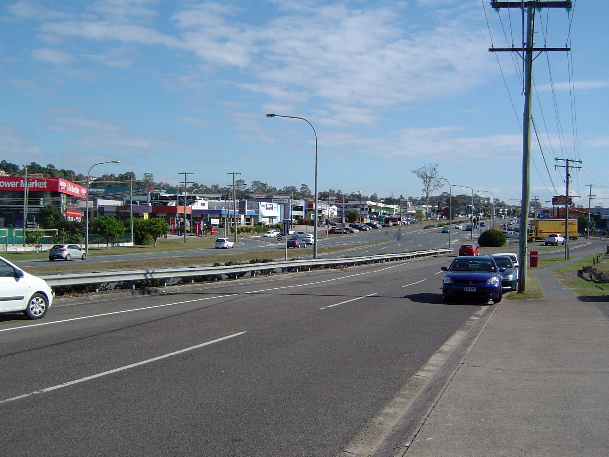 Photo of Logan Road at Underwood, Logan City, Queensland, Australia.